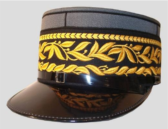 Uniform Képi of the General of the Swiss Army